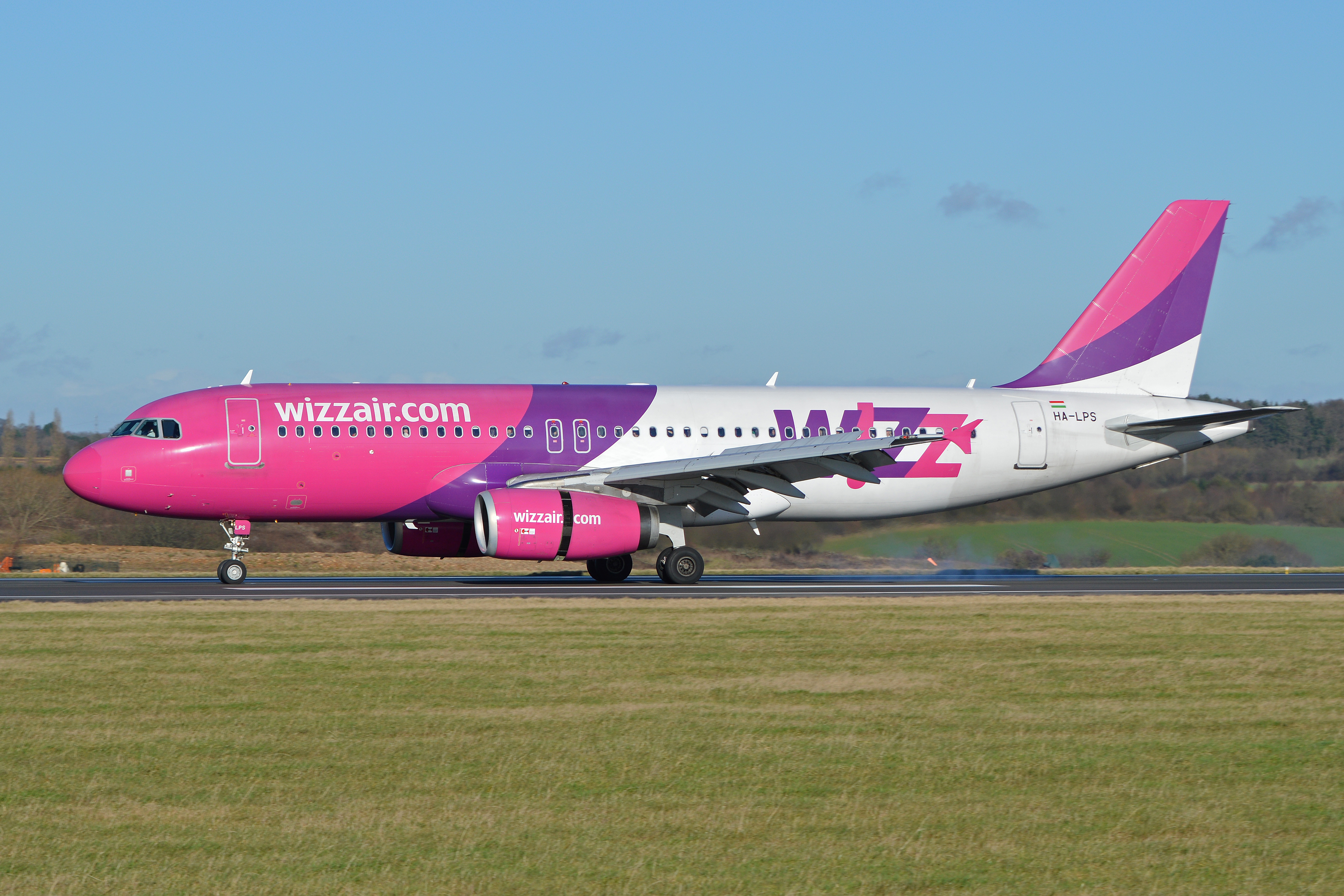 Arriving on flight WZZ309 from Katowice. c/n 3771. London Luton Airport. 11-01-2014